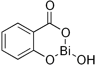 chemical structure of bismuth subsalicylate